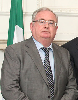 Member of the Finance Committee of Oireachtas Pat Rabbitte TD.